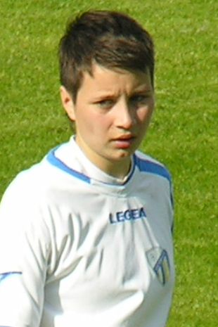 Alexandra II Tóth Hungarian international football player. MTK-Viktória 1-1.